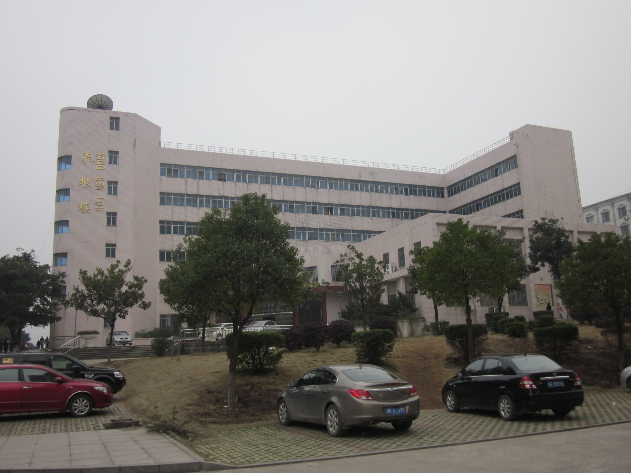 Hunan University of Humanities, Science and Technology （simplified